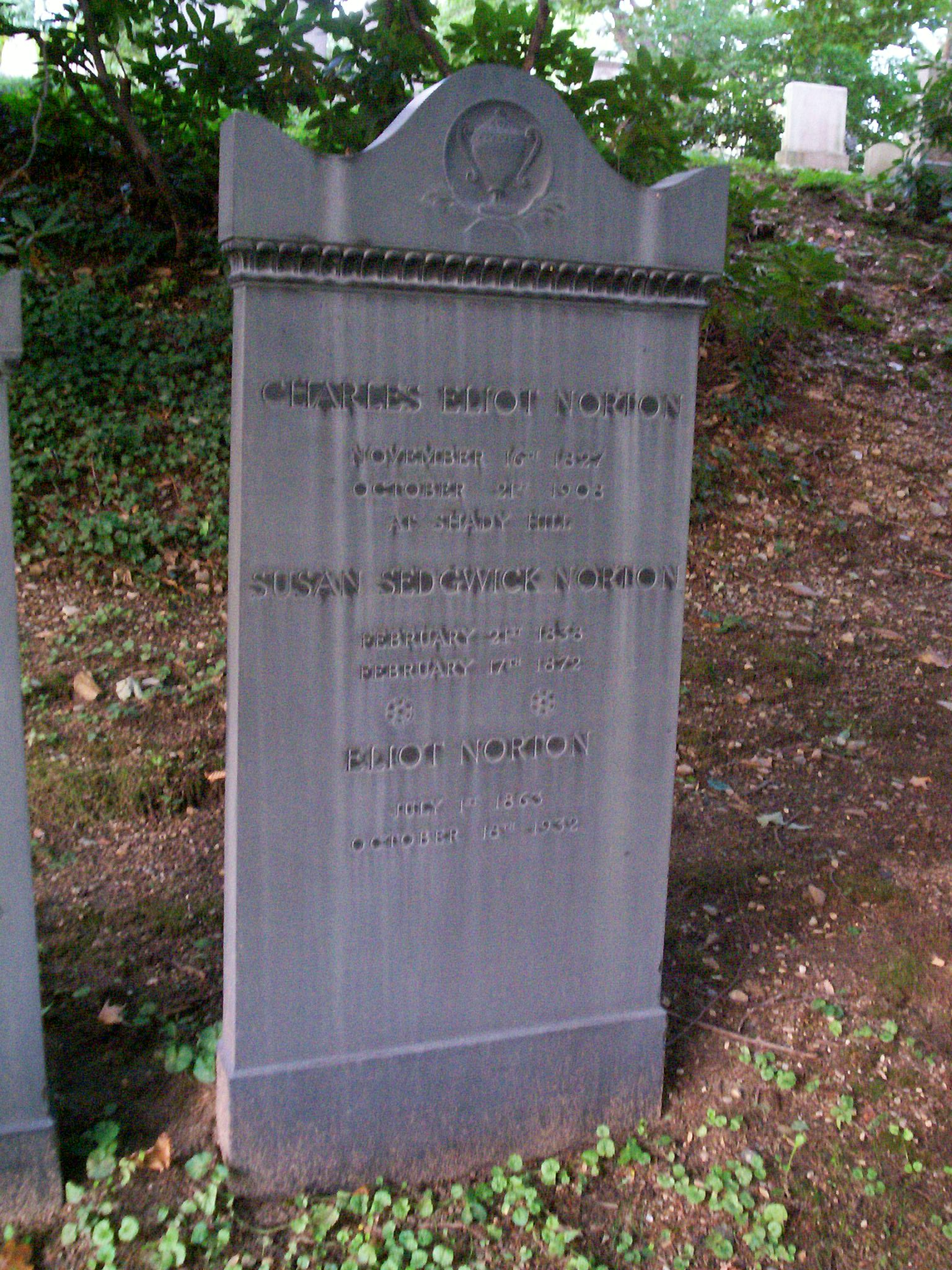 Grave of Charles Eliot Norton at Mount Auburn Cemetery in Cambridge, Massachusetts.